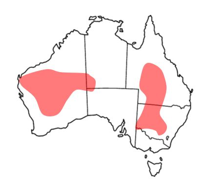 Distribution map of the Chestnut Quail-Thrush